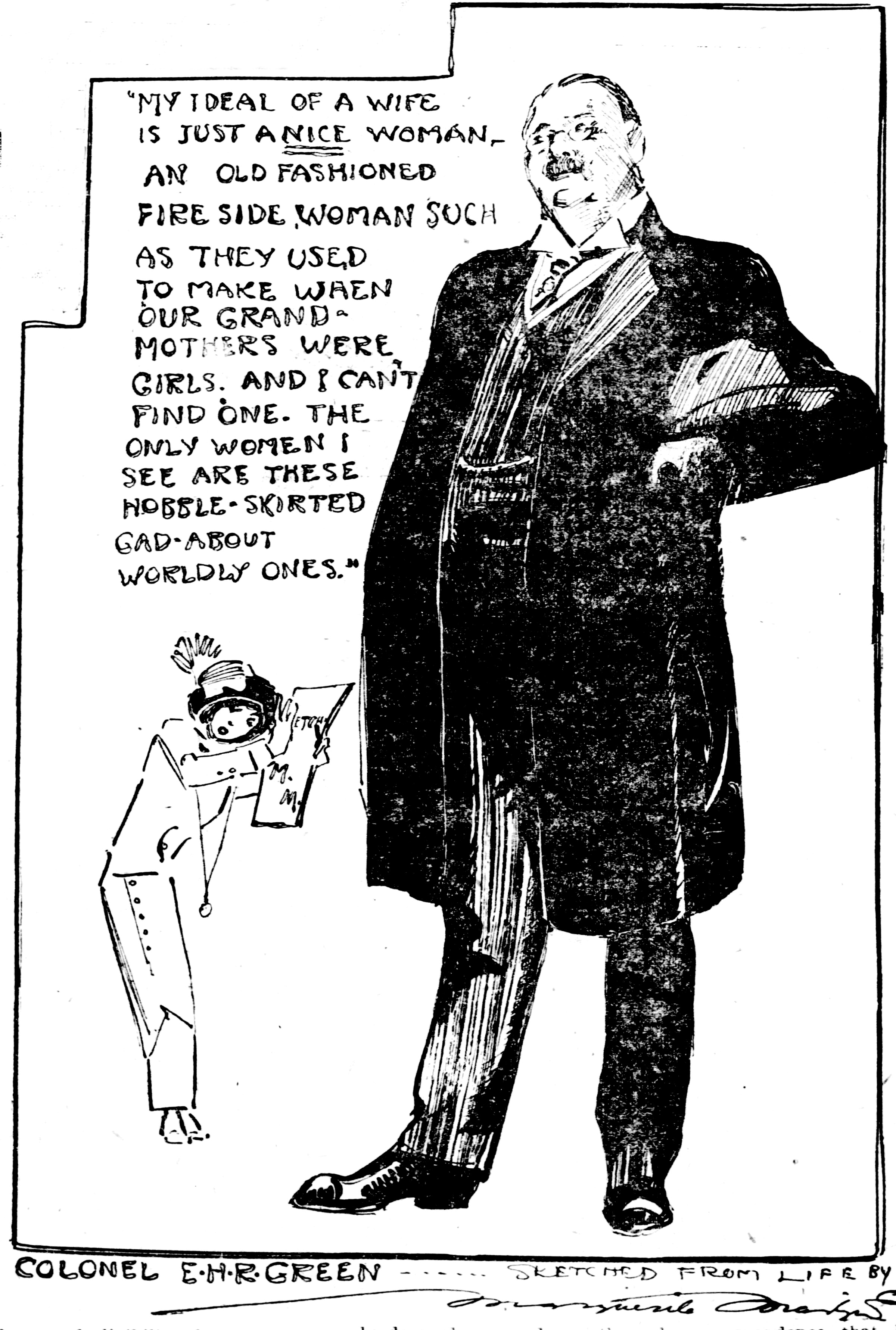 Sketch by journalist Marguerite Martyn of Edward Howland Robinson Green and herself, printed in the St. Louis Post-Dispatch, May 7, 1911, with a quotation from Martyn's interview of Green. Martyn is wearing a hobble skirt.